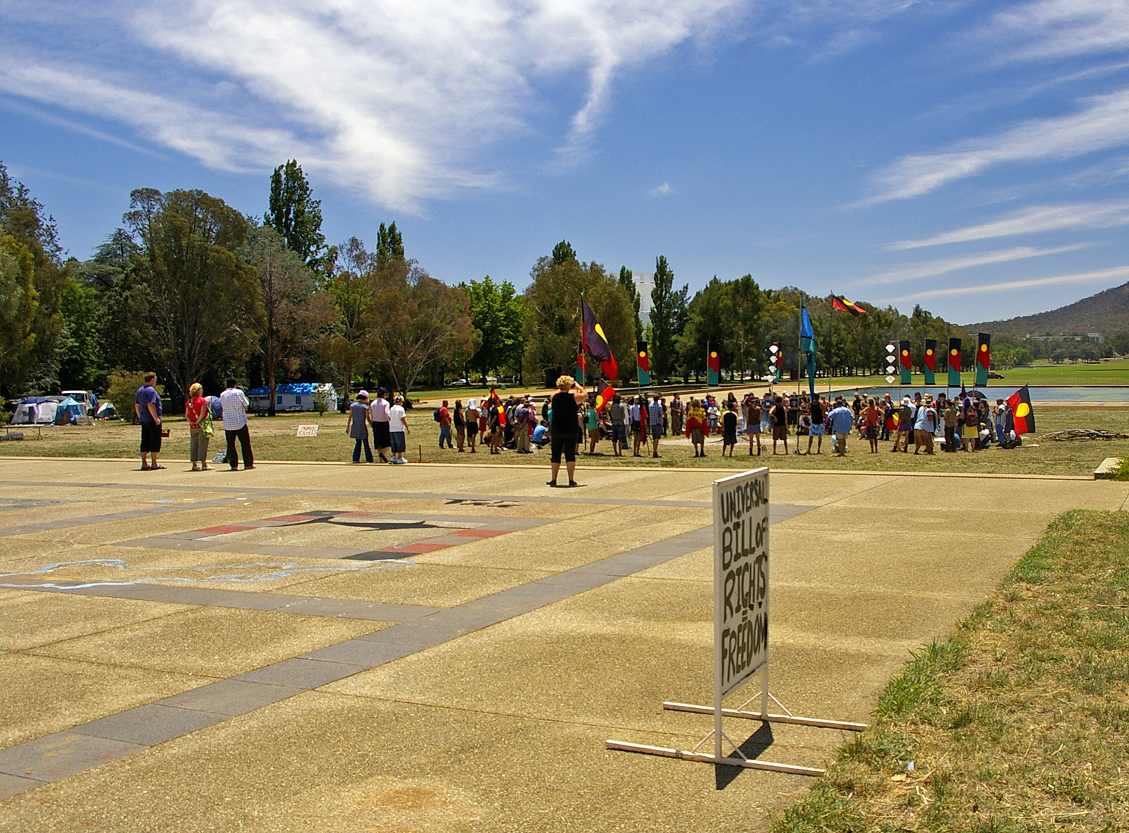 Corroboree for Sovereignty held at the Aboriginal Tent Embassy in Parkes, ACT on 26 January 2010.